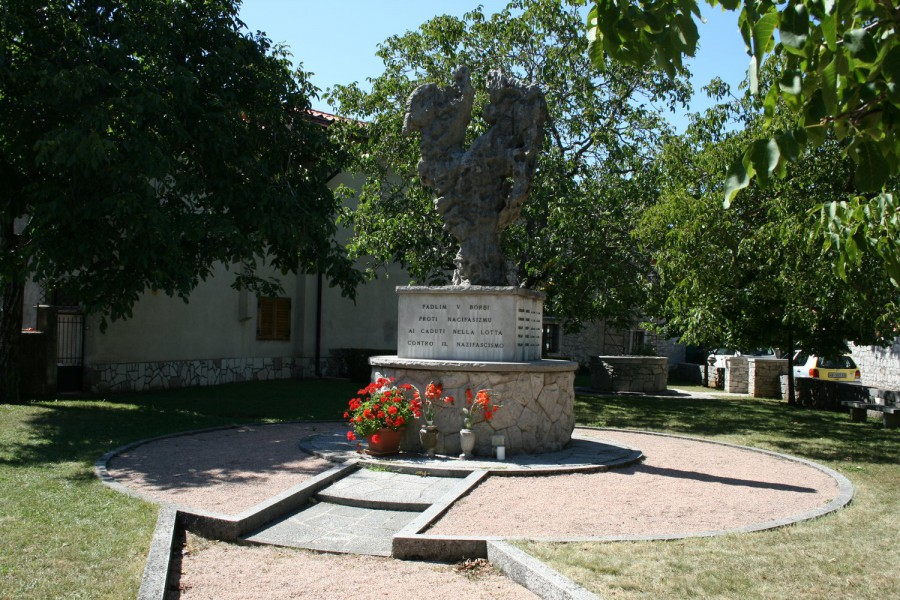 Spomenik padlim Gabrovec